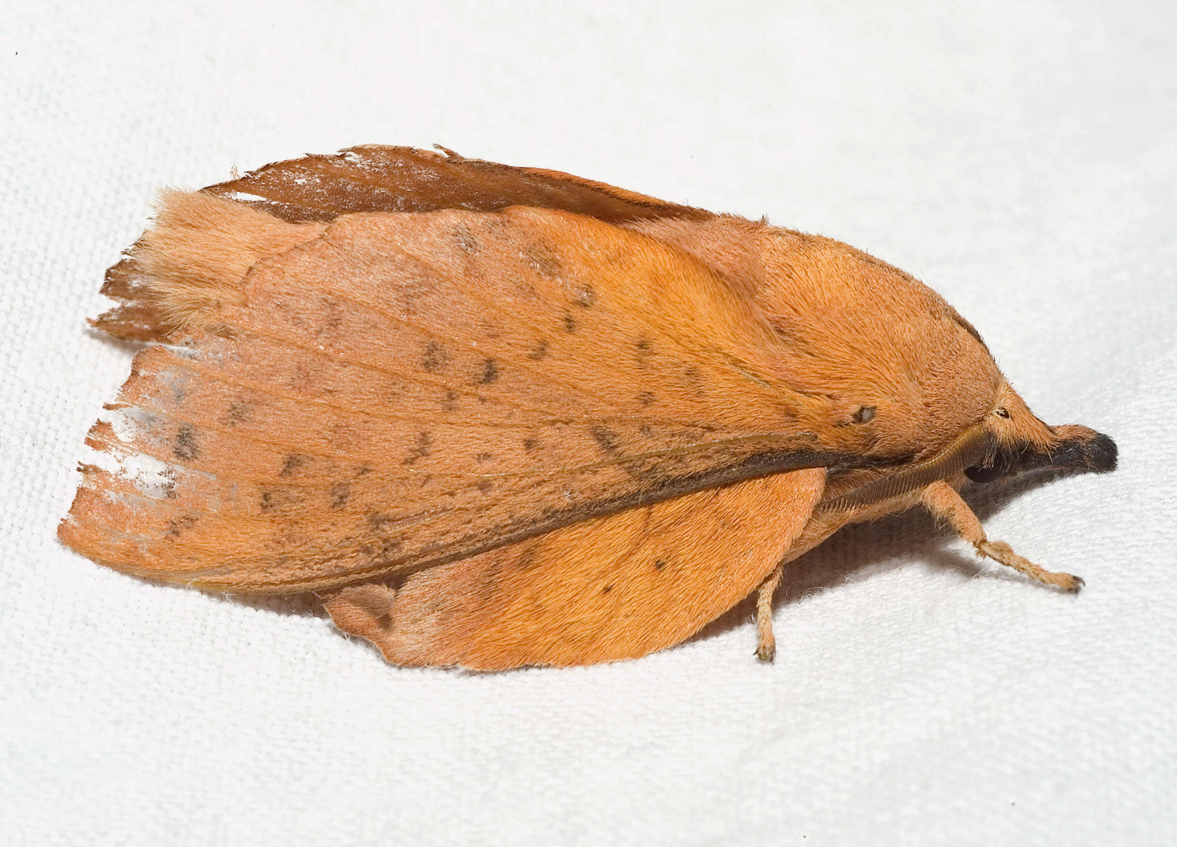 Please report references to kulacgmx.at.